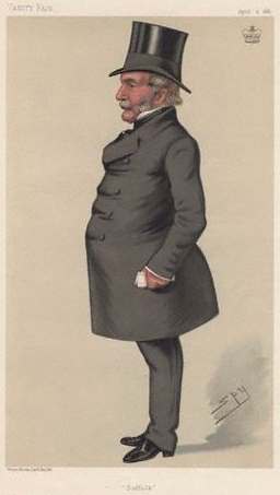 Caricature of Robert Adair, 1st Baron Waveney. Caption read "Suffolk".